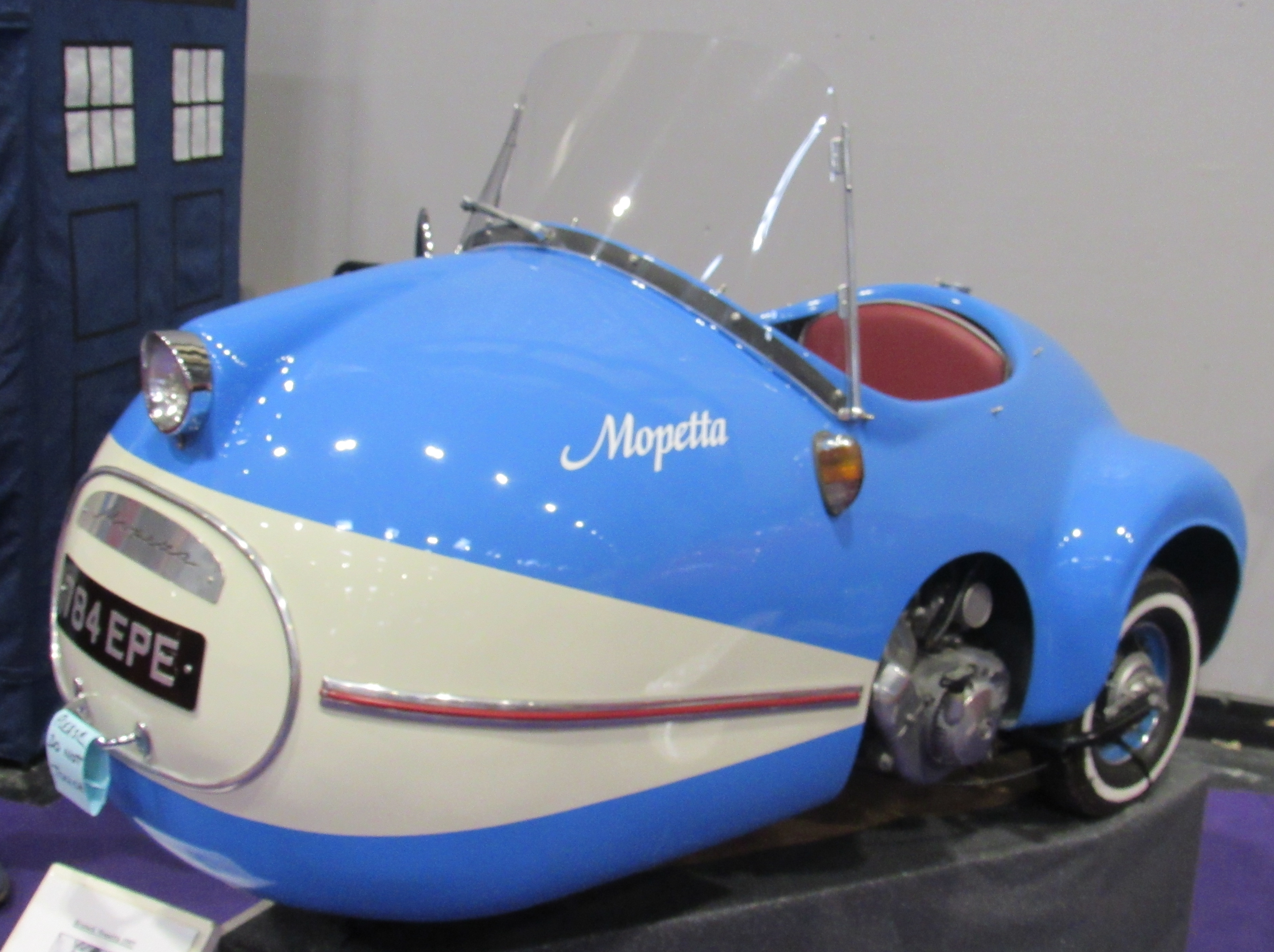 1958 Mopetta NEC Classic Motor Show 2017 (Replica), originally built for the Mopetta GmbH in Frankfurt/Main by Egon Brütsch, financed by Georg von Opel; Replica from 2010/2011 built by Andy Carter in Great Britain for a dutch collector